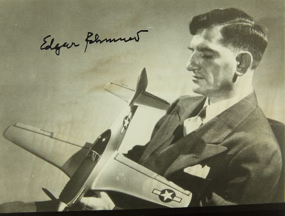 Edgar Schmued